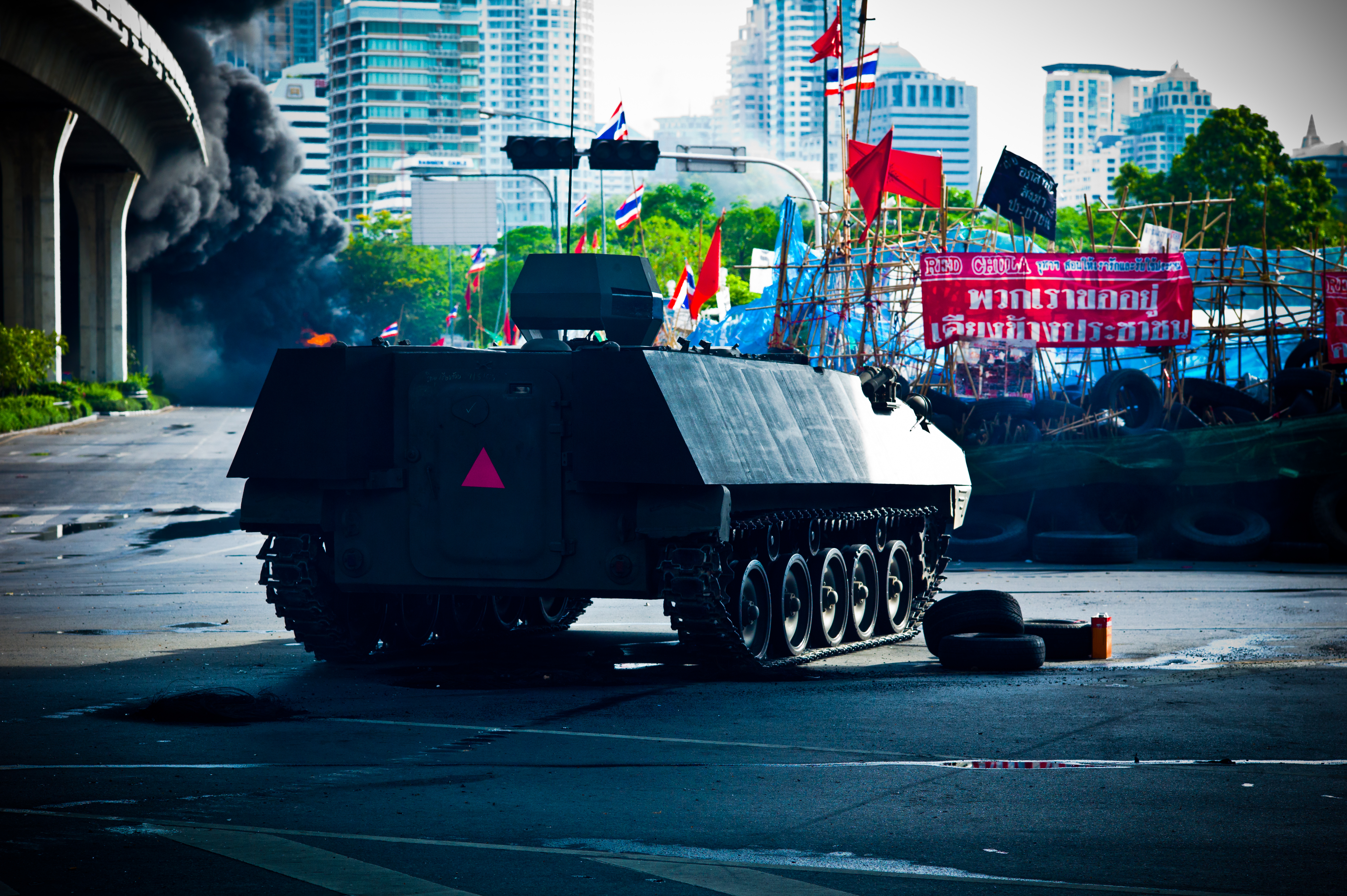 A Type-85 AFV prepares to assault the Red Shirt barricade near Chulalongkorn Hospital.